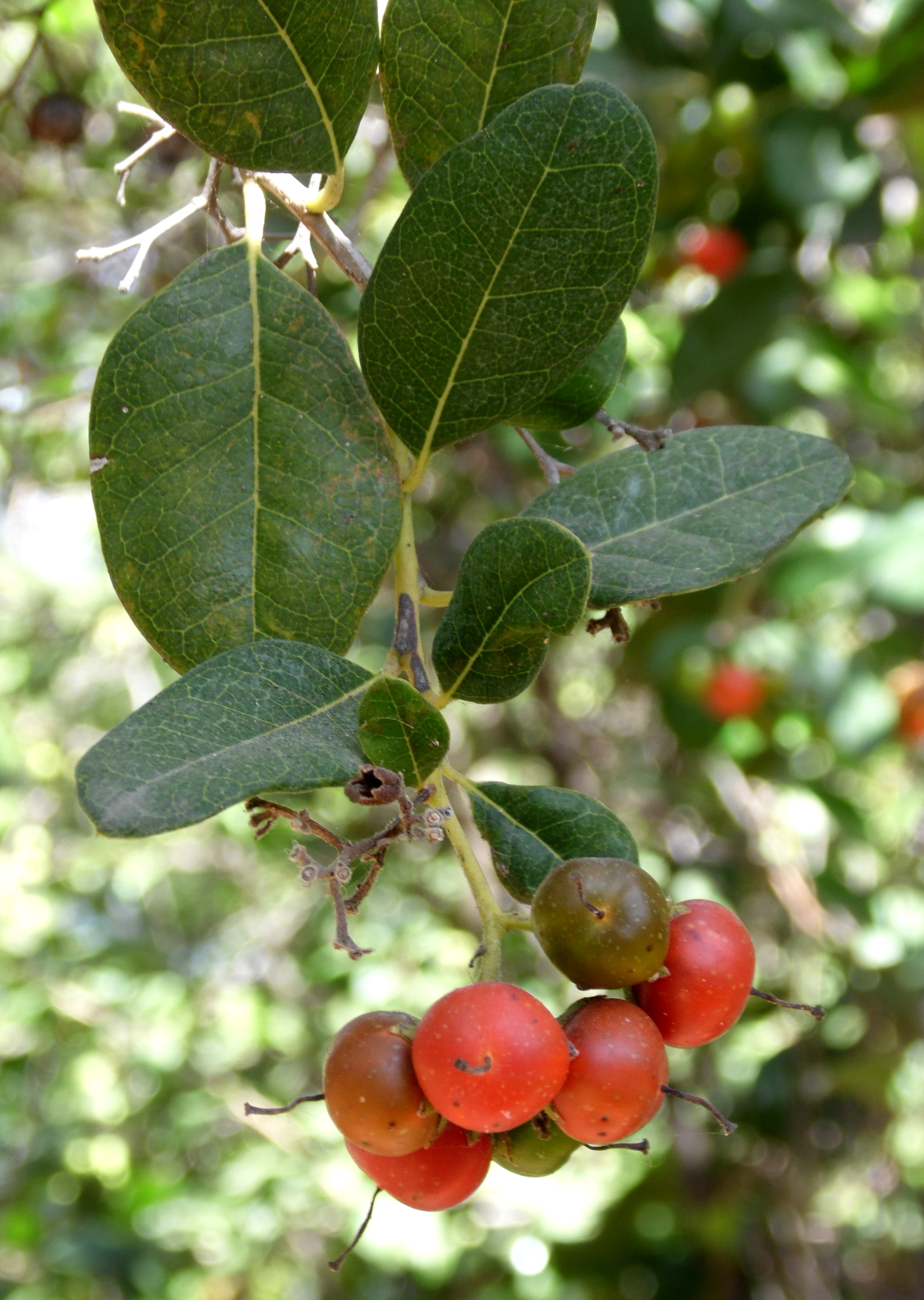 Visnea mocarena in Parque Botánico de Maspalomas (Gran Canaria)